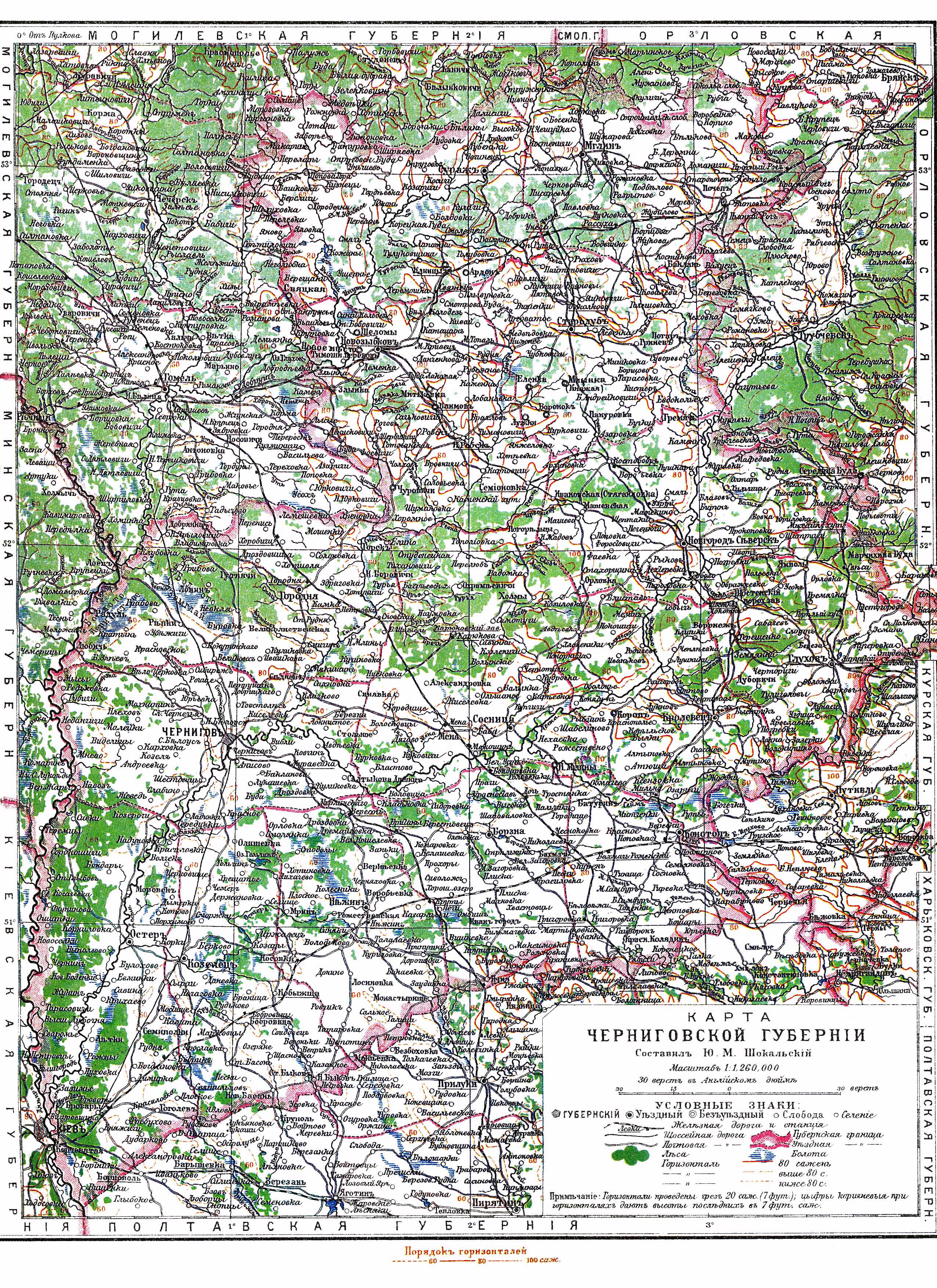 Illustration from Brockhaus and Efron Encyclopedic Dictionary (1890—1907)